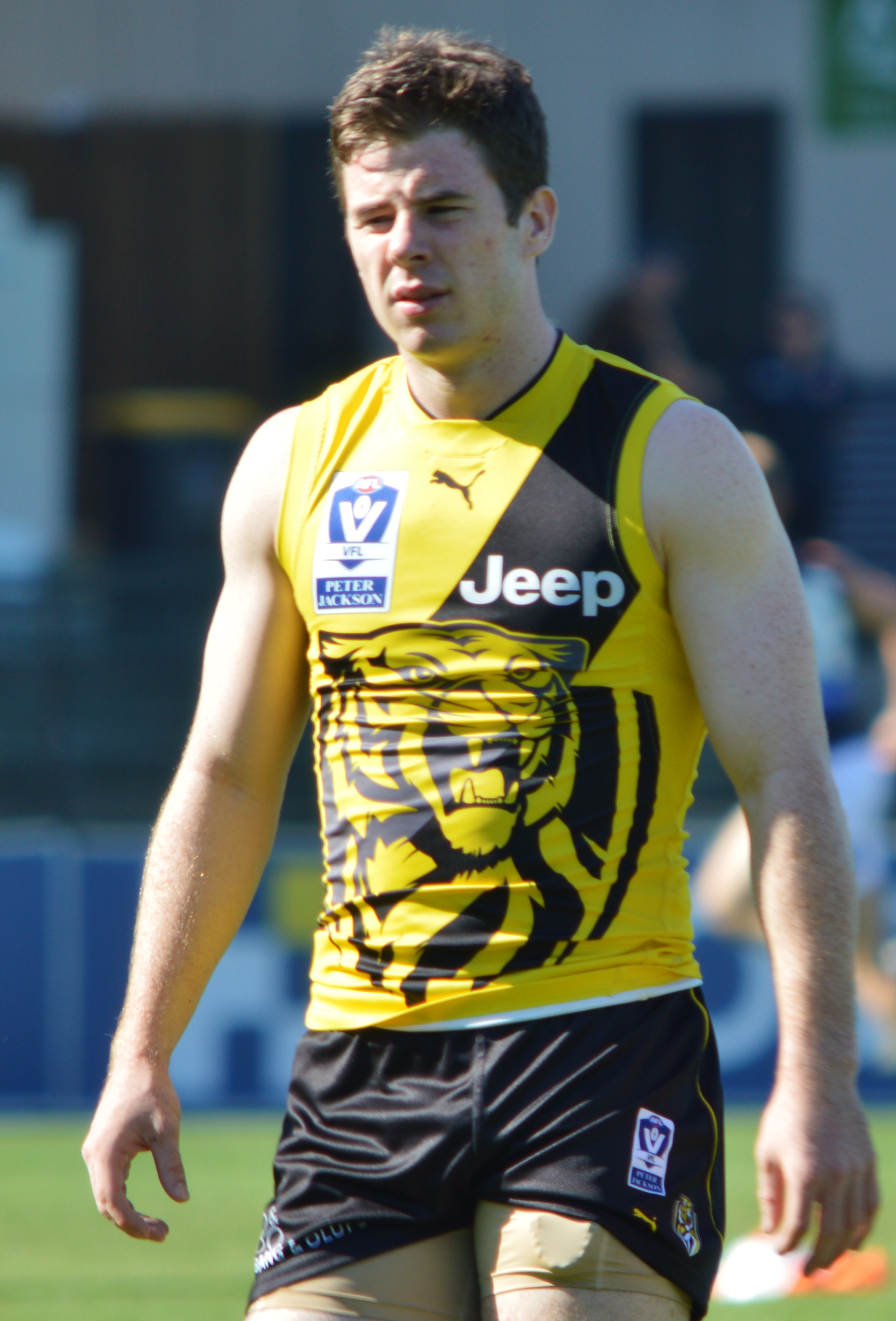 Jack Higgins with Richmond during a VFL practice match against the Northern Blues in March 2018